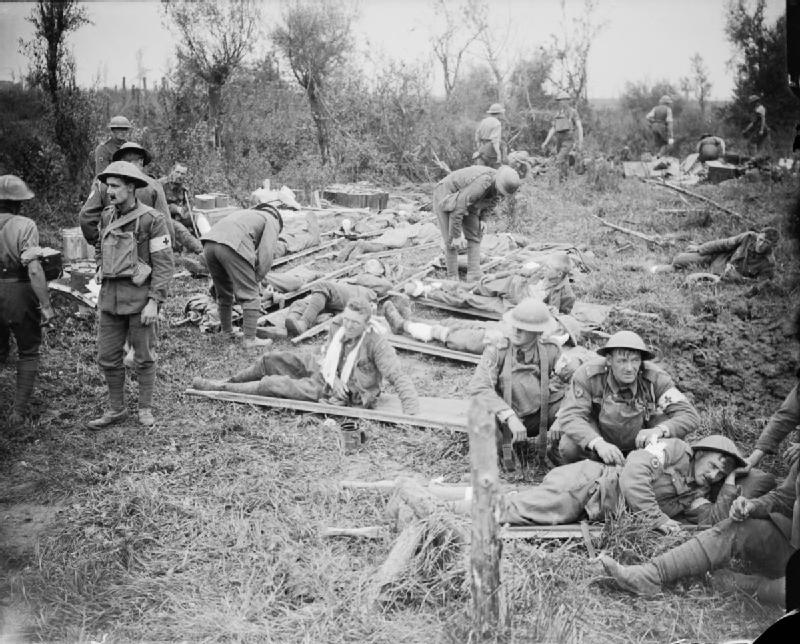 Battle of Pilckem Ridge. British wounded men are tended by medical staff as they lie on stretchers on the grass at an advanced dressing station near Boesinghe.